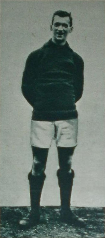 Giuseppe Caimi, Italian association football player for US Milanese and Inter FC; also lieutenant in the Royal Italian Army, killed in action in WWI in 1917